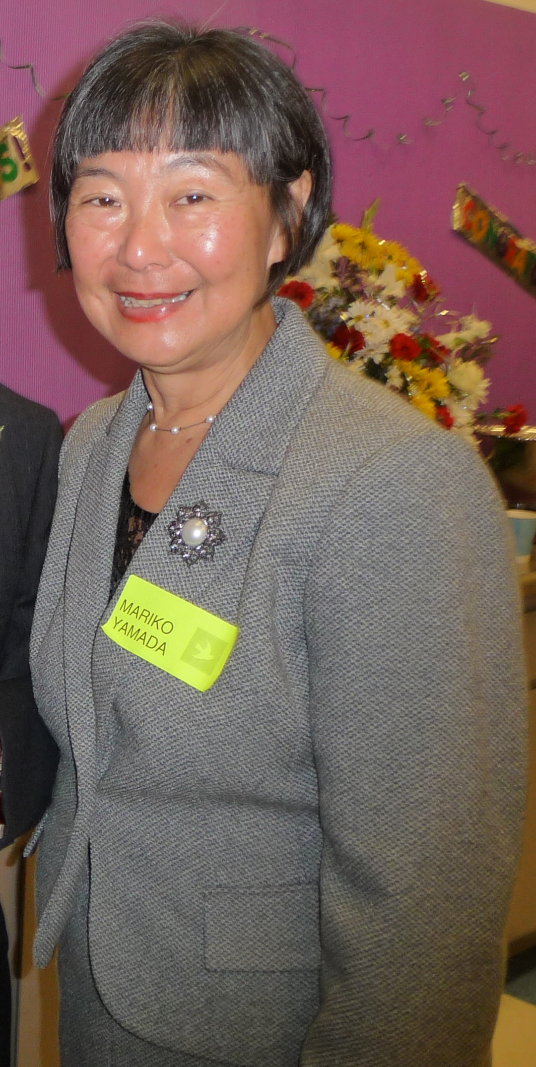 California State Assemblywoman Mariko Yamada in 2010. Photo courtesy of basykes, via Flickr. This file has been extracted from another file: Mariko Yamada 2010.jpg